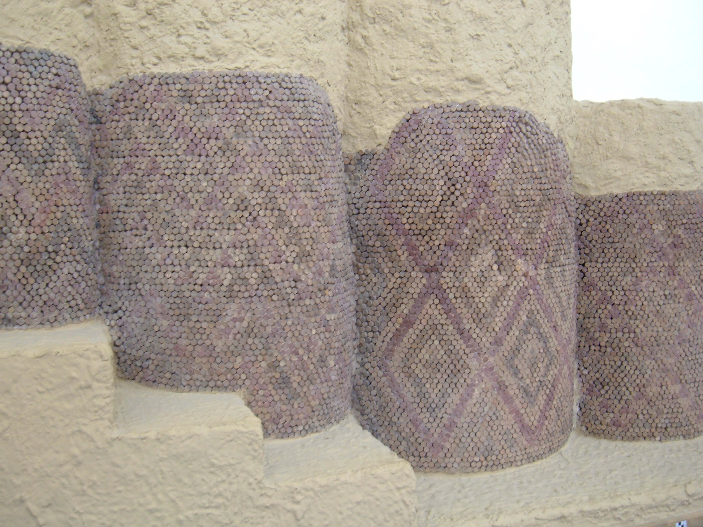 Mosaics from the Stone-Cone Temple in the Eanna District of Uruk IV, on display at the Pergamon Museum in Berlin, Germany.